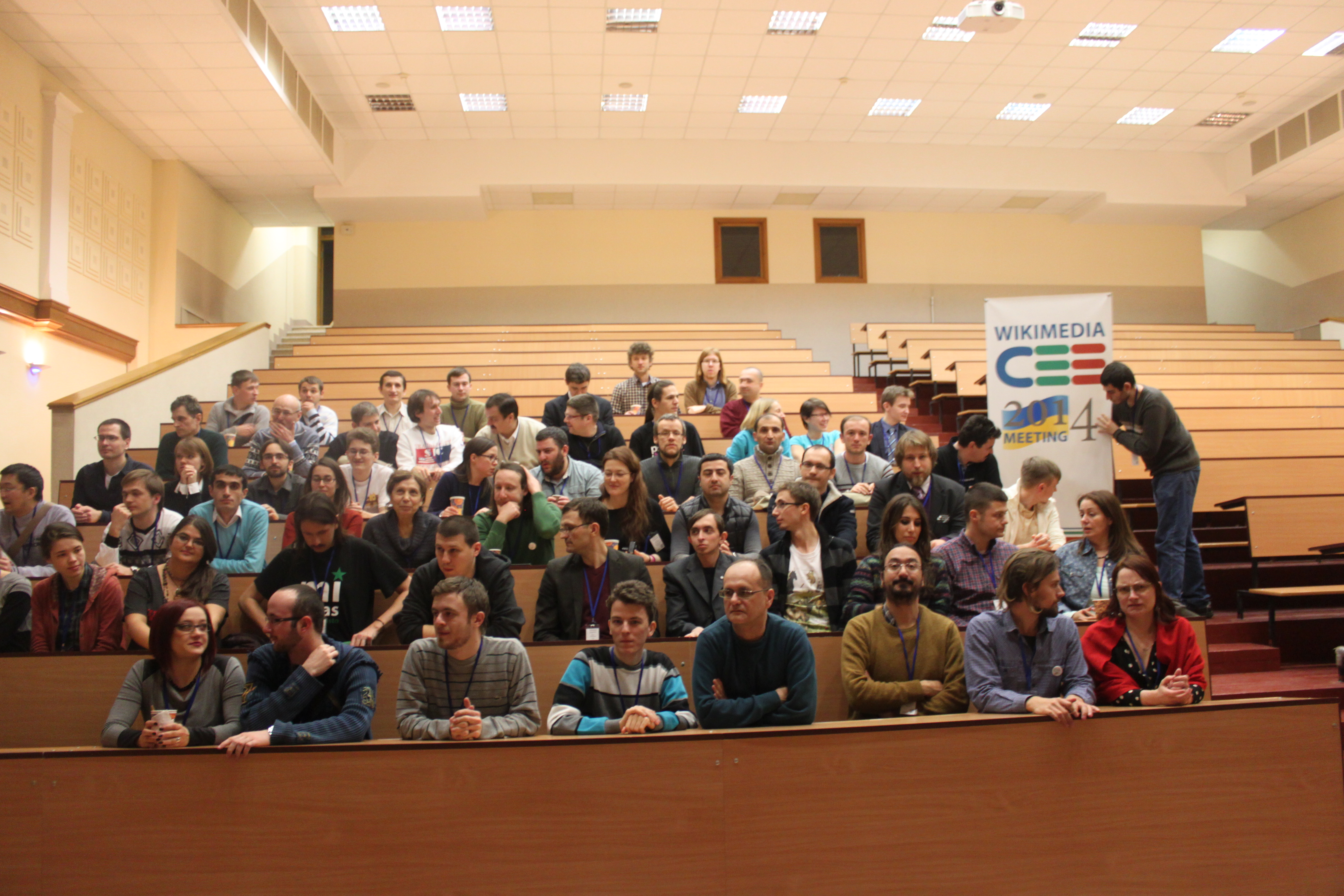 Wikimedia CEE Meeting 2014 second day